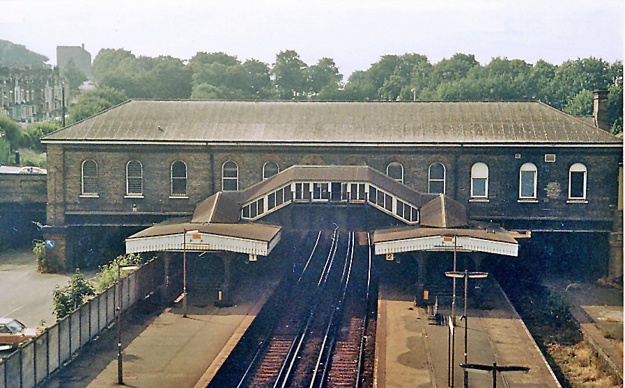 Chatham Station from the east. This major station on the ex-London, Chatham & Dover (later SE&C) main line from London (Victoria, or Holborn Viaduct) to Ramsgate and Dover is situated between several tunnels. The view is eastwards, towards Gillingham, Sittingbourne and Faversham - where the Ramsgate line leaves the Dover line. By 1983, rationalization had removed the Up Relief line.